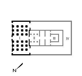 Plan of the Temple of Khnum in Esna